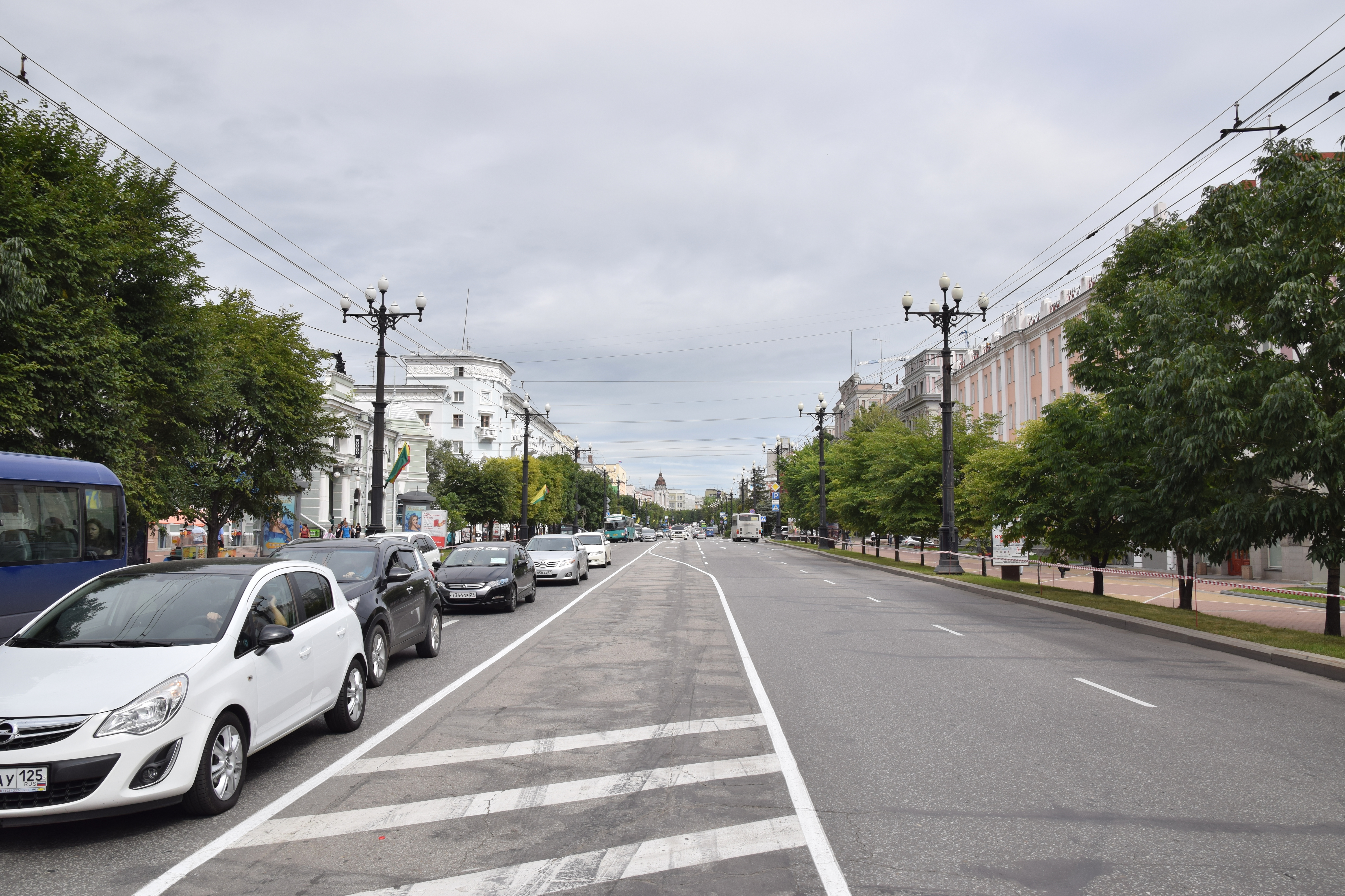 Khabarovsk's central street, Muravyova-Amurskogo